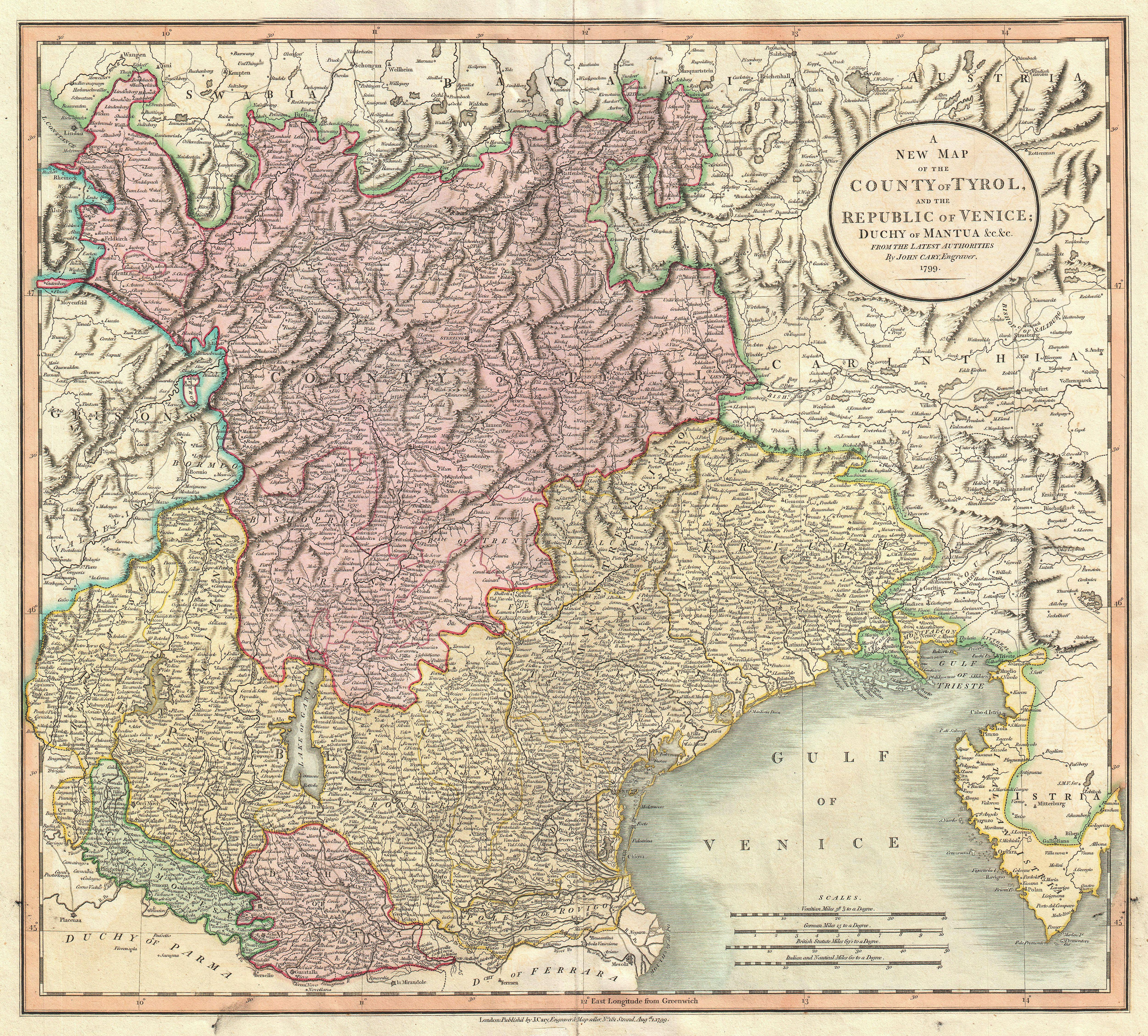 An extremely attractive example of John Cary’s important 1799 map of the Venetian States. Covers Bergamo and Lake Constance eastward, past Tyrol, Venice, and Mantua to Istria and the Gulf of Trieste. Offers stupendous detail and color coding according to region. All in all, one of the most interesting and attractive atlas maps the Venice, Mantua and Tyrol to appear in first years of the 19th century. Prepared in 1799 by John Cary for issue in his magnificent 1808 New Universal Atlas .